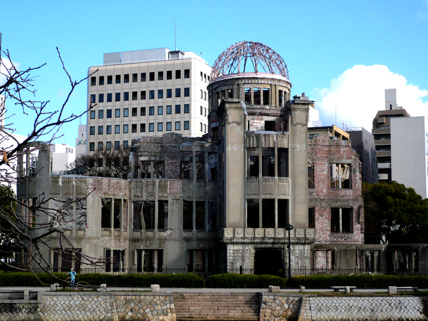 Genbaku Domu. Hiroshima. Japan